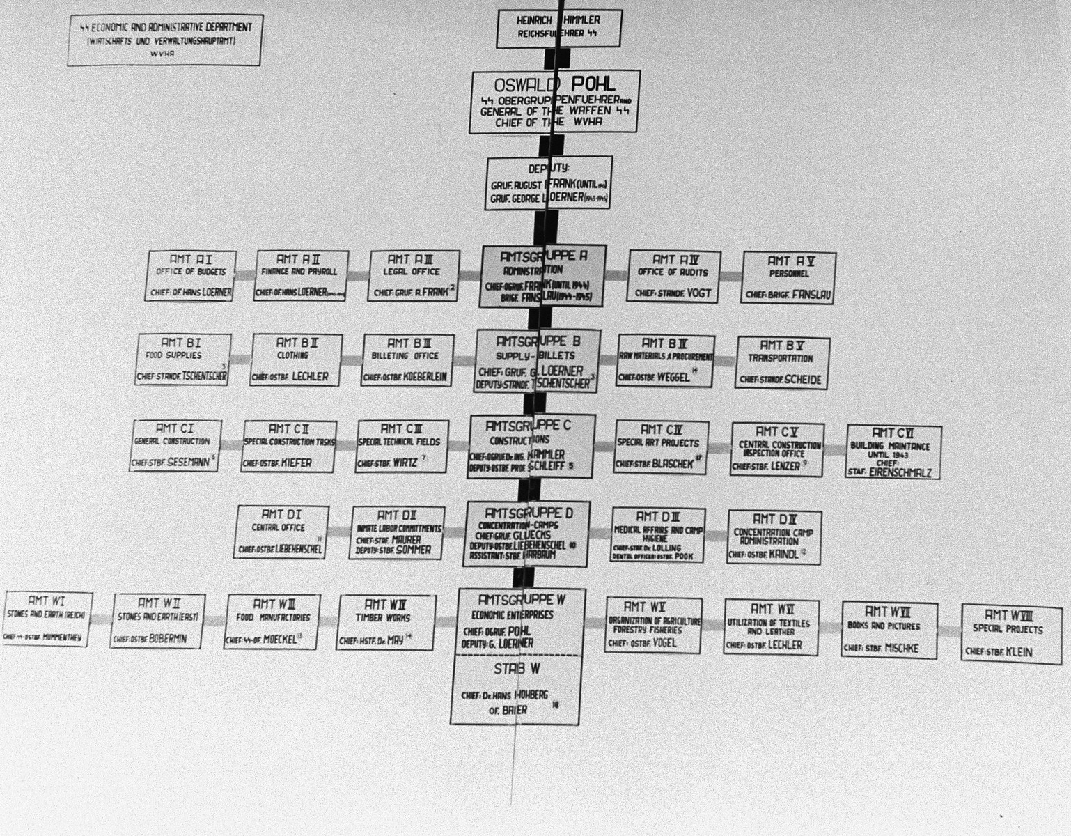 Evidence presented during WHVA trial